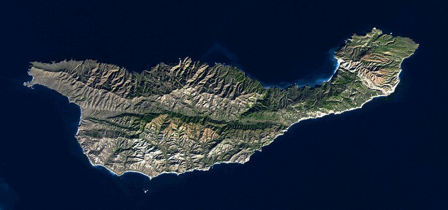 NASA ASTER image of Santa Cruz Island — one of the northern Channel Islands of California. Located off the coast in Santa Barbara County, Southern California.